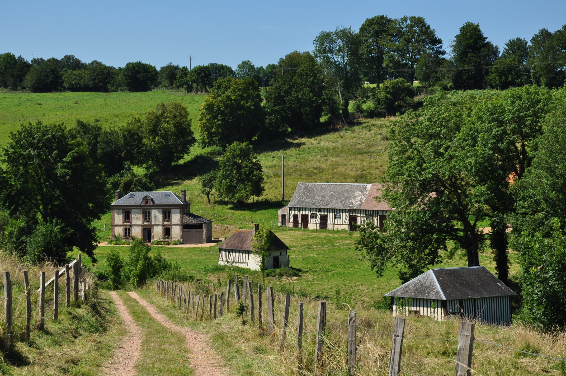 Landscape in Auquainville (Calvados department, Normandy, France). This group of farms was part of the municipality of Saint-Aubin, which was abolished and incorporated into Auquainville in 1831.